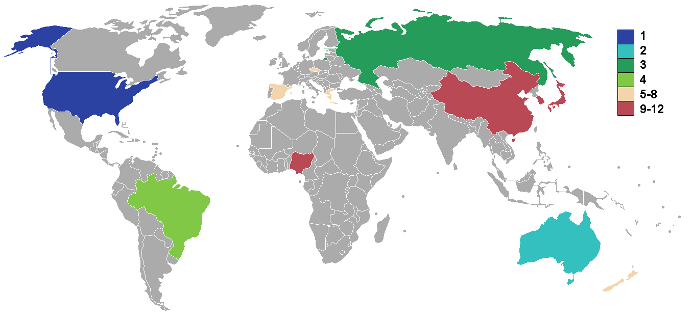 Final finishing places on Basketball at the 2004 Summer Olympics - Women's basketball.